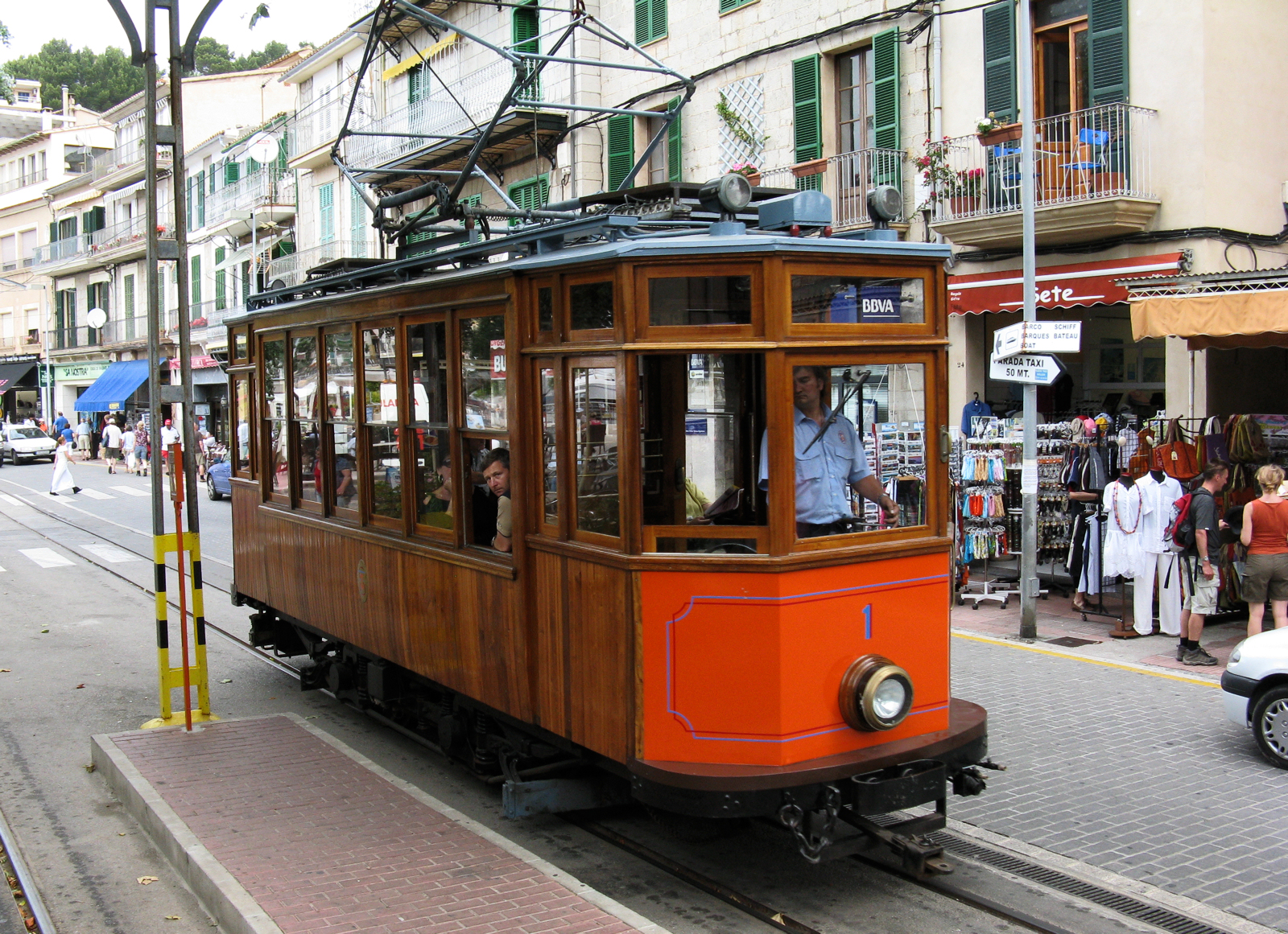 The Port de Sóller to Sóller tram (Majorca, Spain). The tram in the picture is travelling along the seafront at Port de Soller.